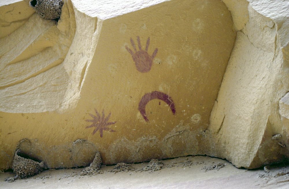 Chaco Canyon Petrographs